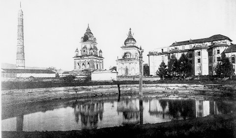 Kathmandu.